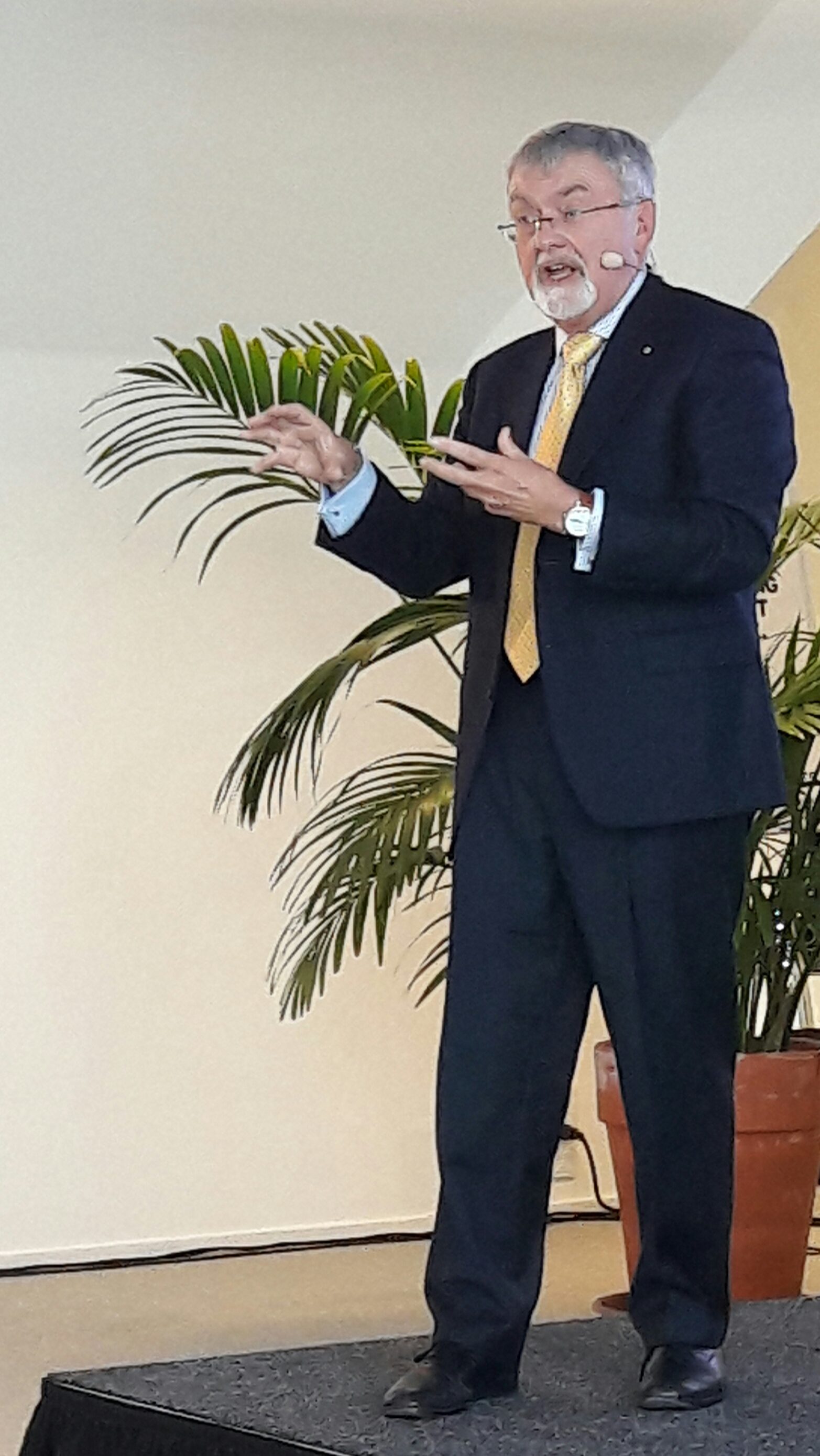 Peter Shergold in a conference in The Netherlands in March 2017